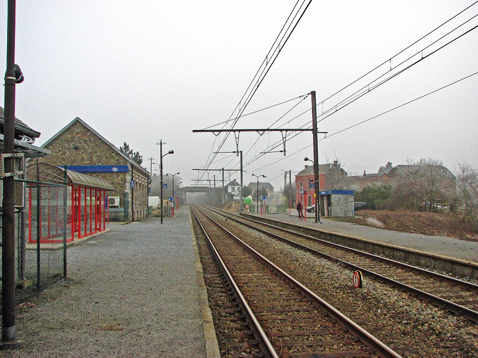 Het station van Courrière.